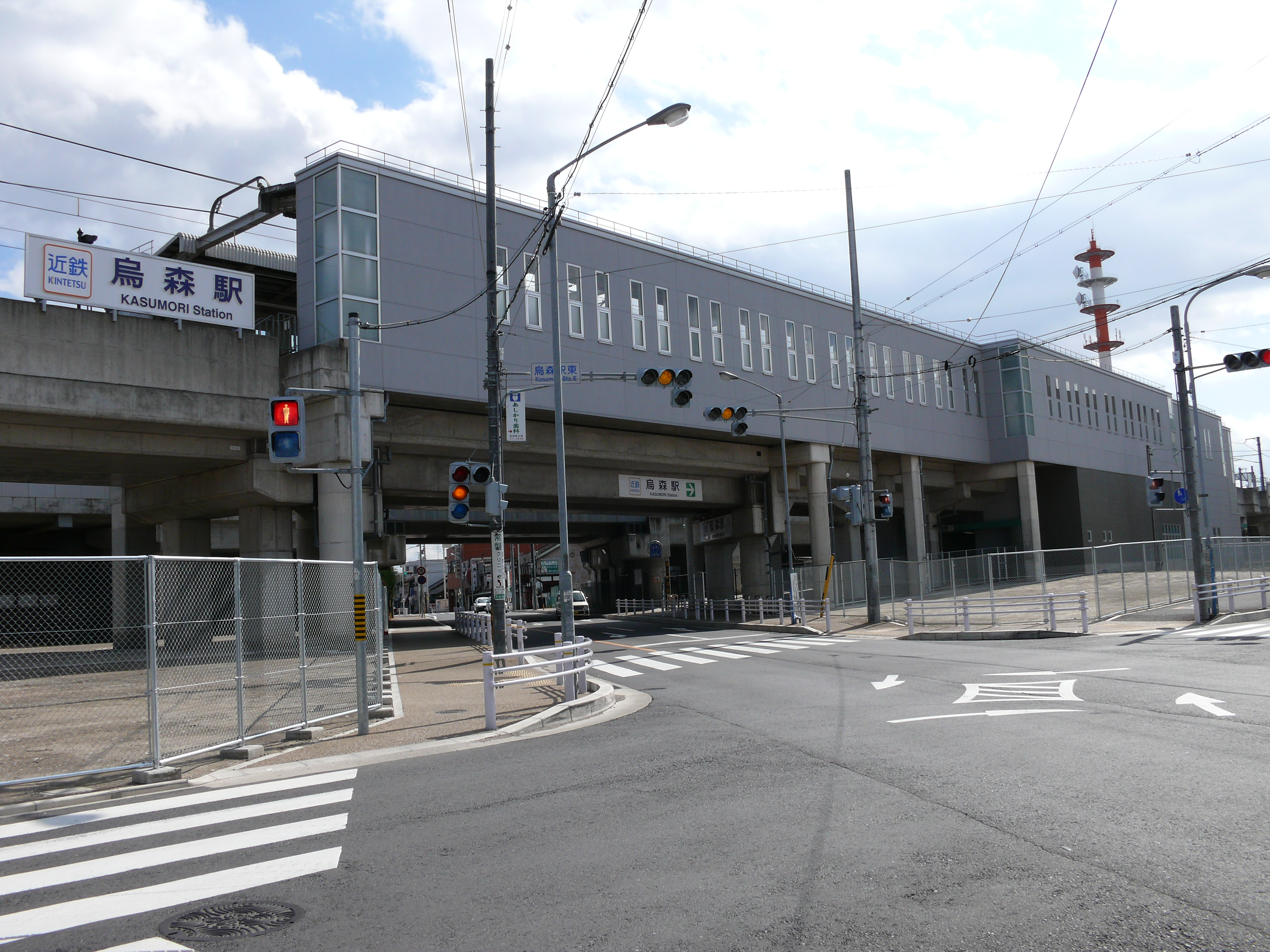 Kintetsu of Kasumori Station.